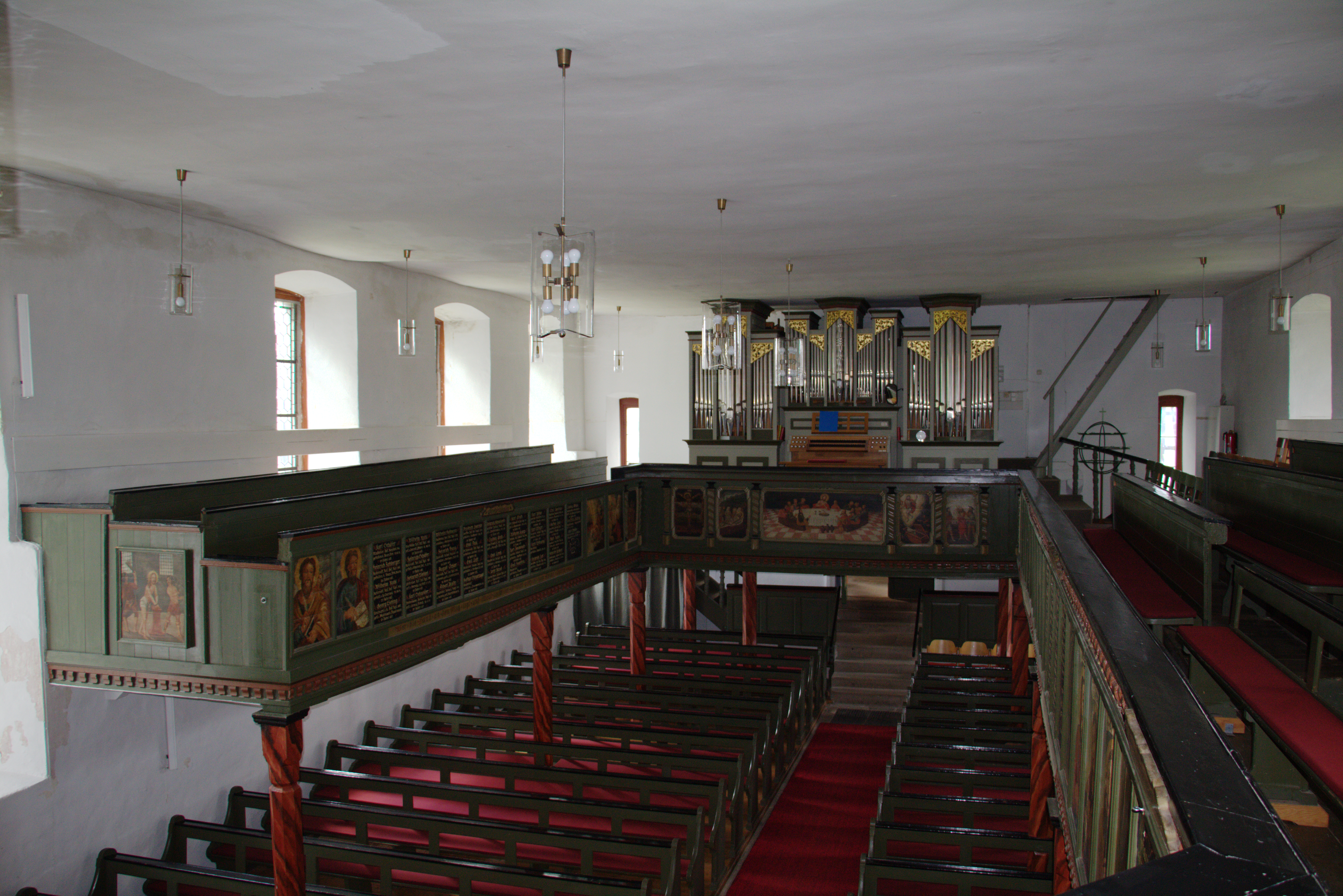 Protestant Church (Organ) in Grebenhain, Crainfeld, Hesse, Germany